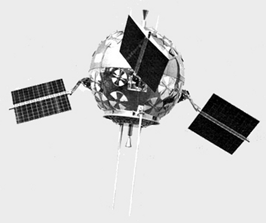 A Pioneer P-3 space probe which is nearly identical to P-1, P-30 and P-31.